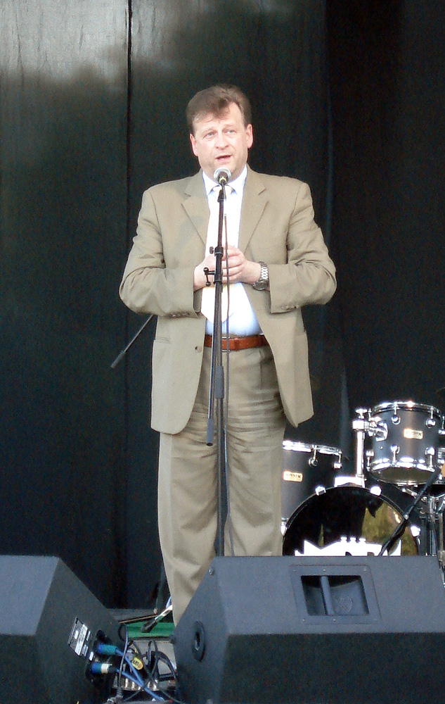 Tamás Bátor opera singer, headmaster of International Opera Festival Miskolc, Hungary, 2010